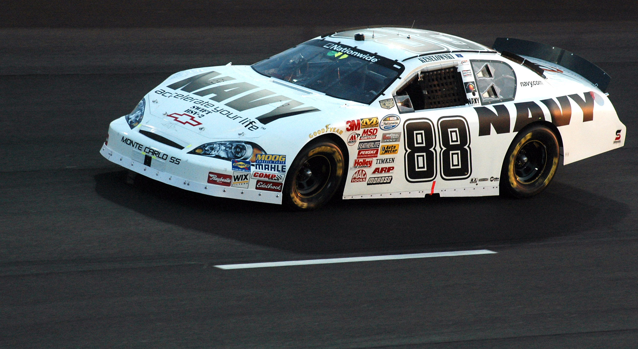 080509-N-9936B-440 DARLINGTON, S.C. (May 9, 2008) The No. 88 Navy Chevrolet Monte Carlo, driven by NASCAR driver Brad Keselowski, rolls through turn three of Darling Raceway in the early laps of the Diamond Hill Plywood 200 at Darlington Raceway. The No. 88 car, owned by JR Motorsports, is part of the NASCAR Nationwide Series.